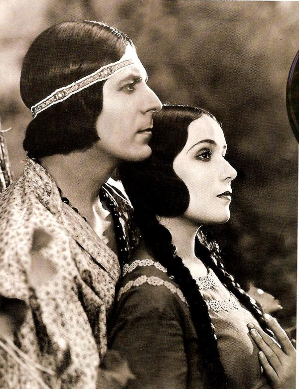 Warner Baxter and Dolores del Río in a publicity photo of the American drama film Ramona (1928).